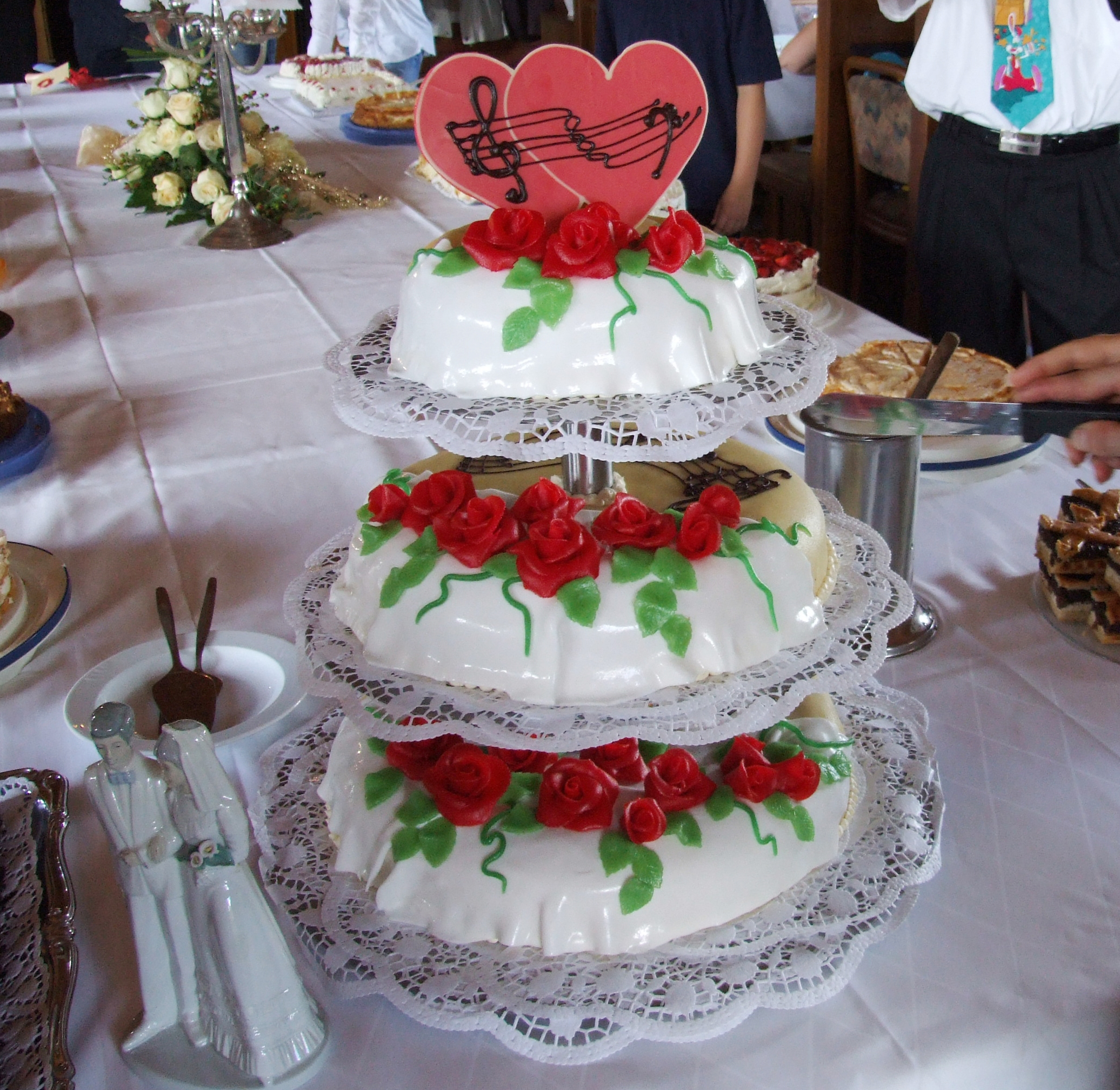 Wedding cake with hearts and roses on the buffet table in Germany